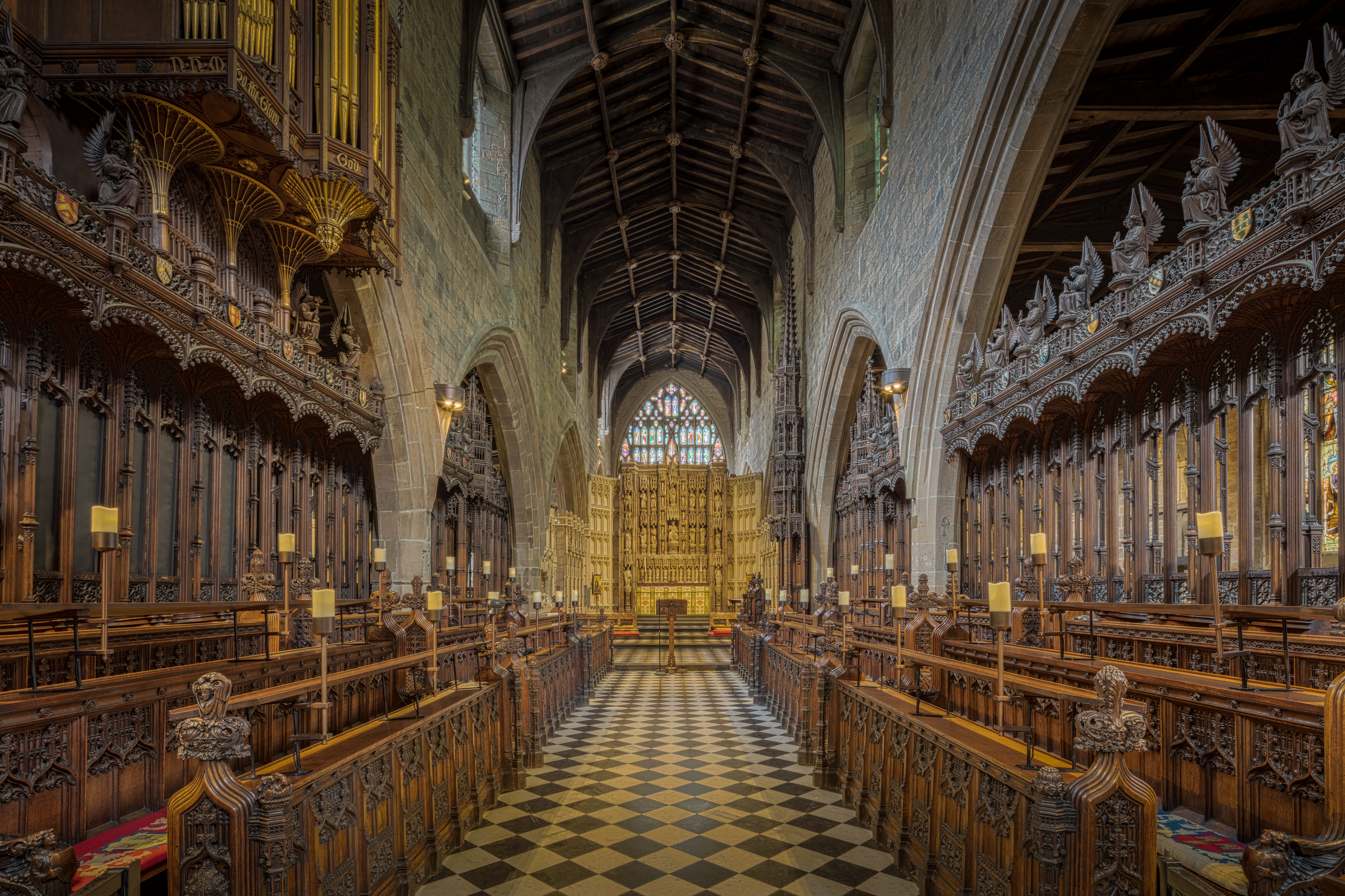 Here is an hdr photograph taken from the choir inside The Cathedral Church of St Nicholas. Located in Newcastle, England, UK.